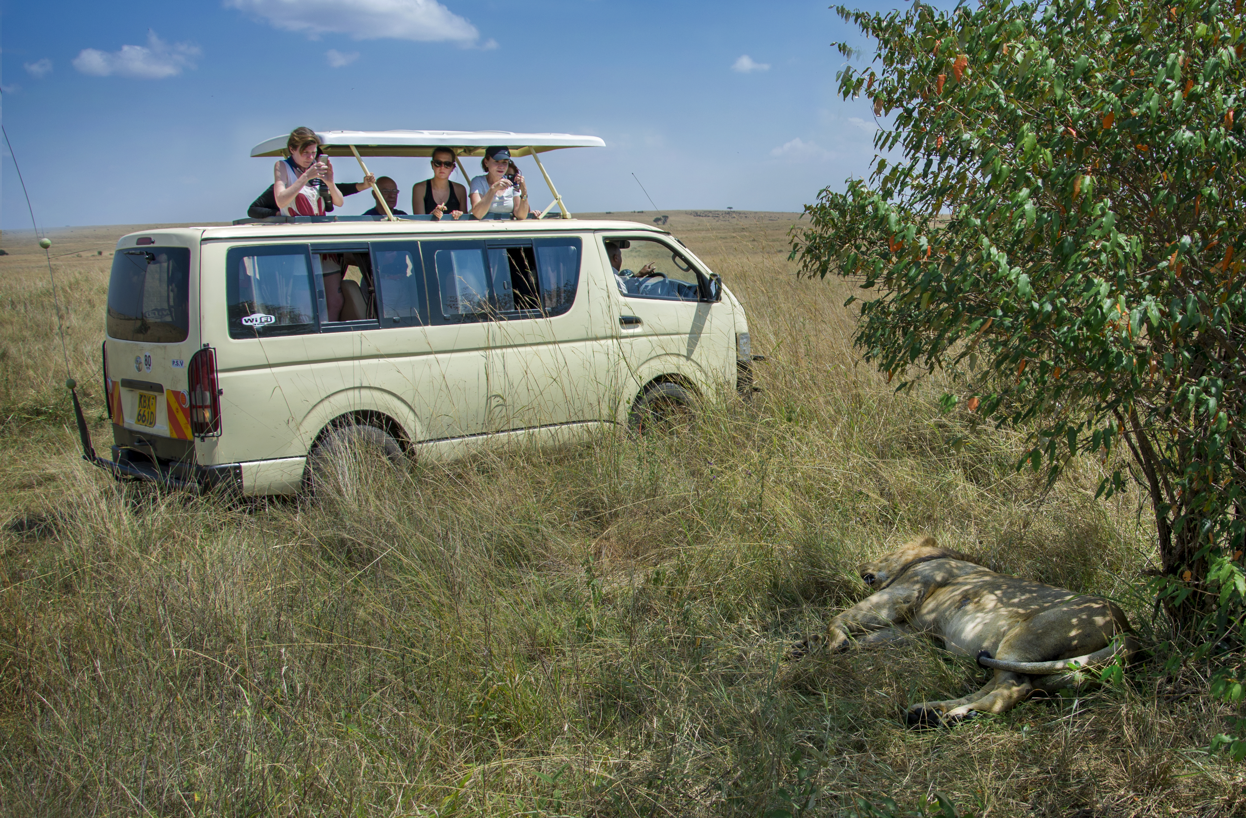 This is an image with the theme "Africa on the Move or Transport" from: Kenya